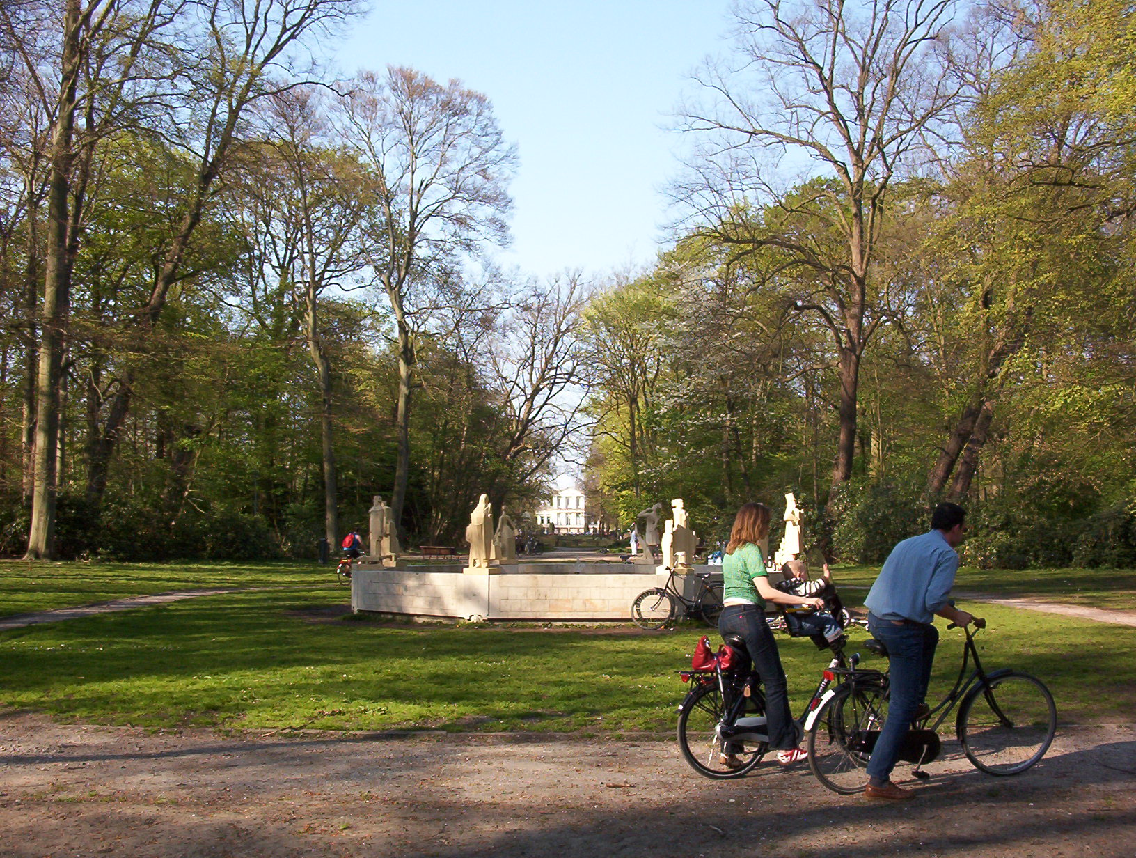 View of Hildebrand monument in Haarlemmerhout park, Haarlem. Beyond the monument is the hertenkamp, the fenced-in area for a herd of small deer, and beyond that in the background is Villa Welgelegen. The monument was made by Jan Bronner in 1948. Photo Date: April 2007